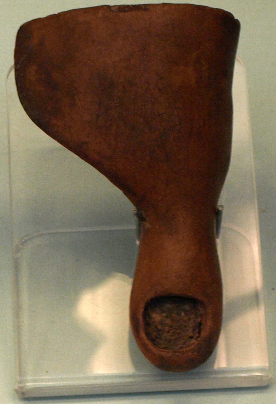 Prosthetic toe made of cartonnage, found on the foot of a mummy from the Third Intermediate period (circa 1070-664 BC). It is one of the earliest known examples of a prosthetic. EA 29996.